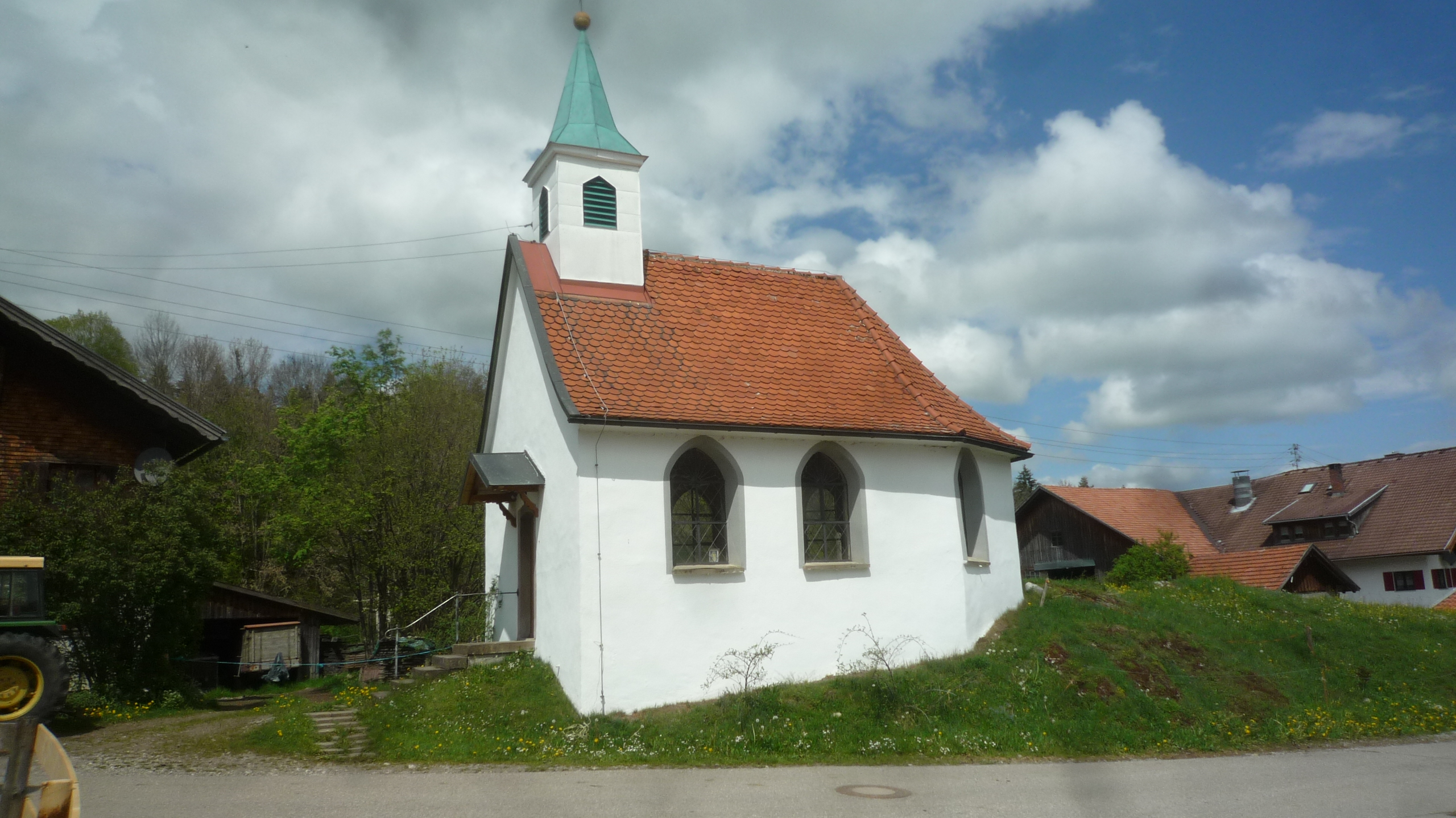 Chapel St Mary Magdalene Greggenhofen